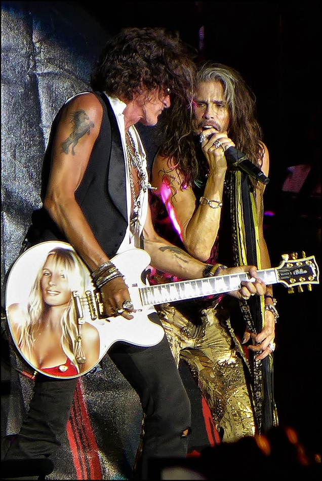 live Rock Fest BCN 2017